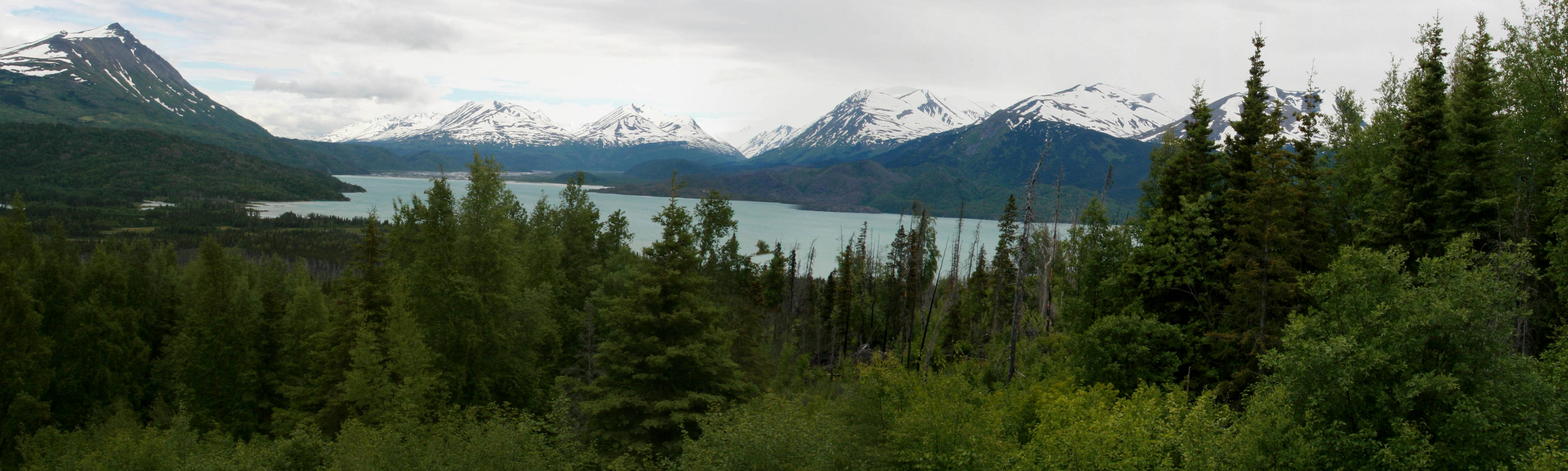 Taken on a quick day trip to the Kenai Peninsula, south of Anchorage, Alaska in June 2008.